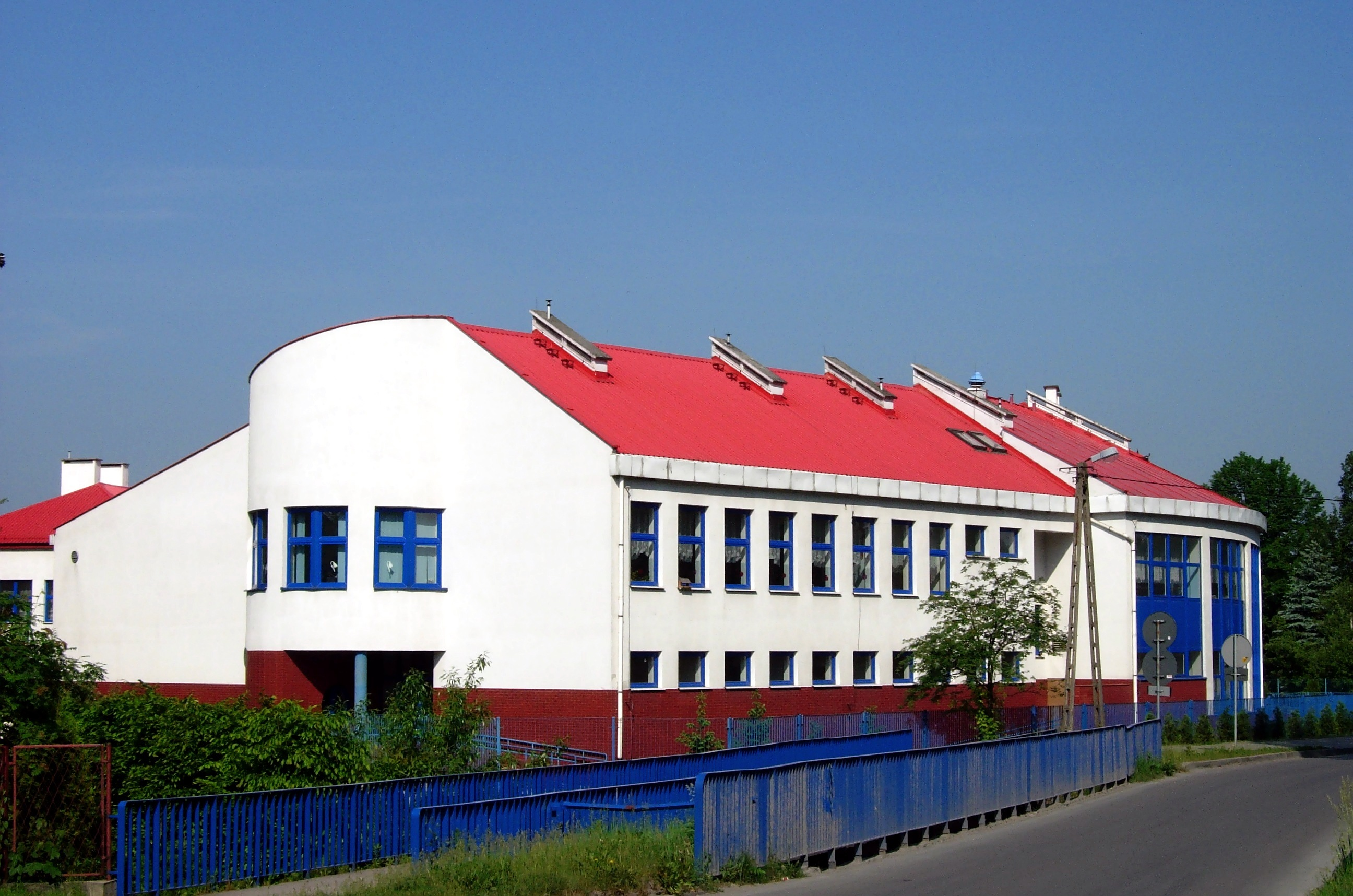 School in Rudawa, Lesser Poland Voivodeship, Poland